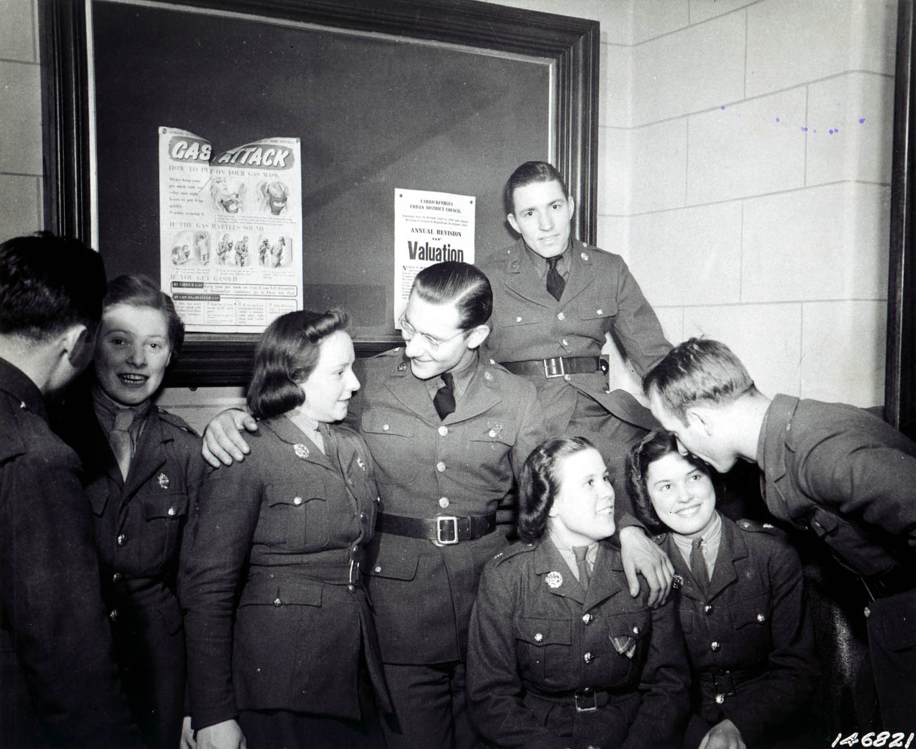 American soldiers and Irish girls have a friendly chat during the Saint Patricks Day Dance and Celebration. LtoR: Pvt Bernard Brilliant; Cpl May Officer; Pvt Catherine McCloskey; Pvt John Battafarano; Pvt Raymond Evans; Pvt Doris Evane; Pvt Henriette Officer; Pvt Henry Kacvinsky. Ireland.